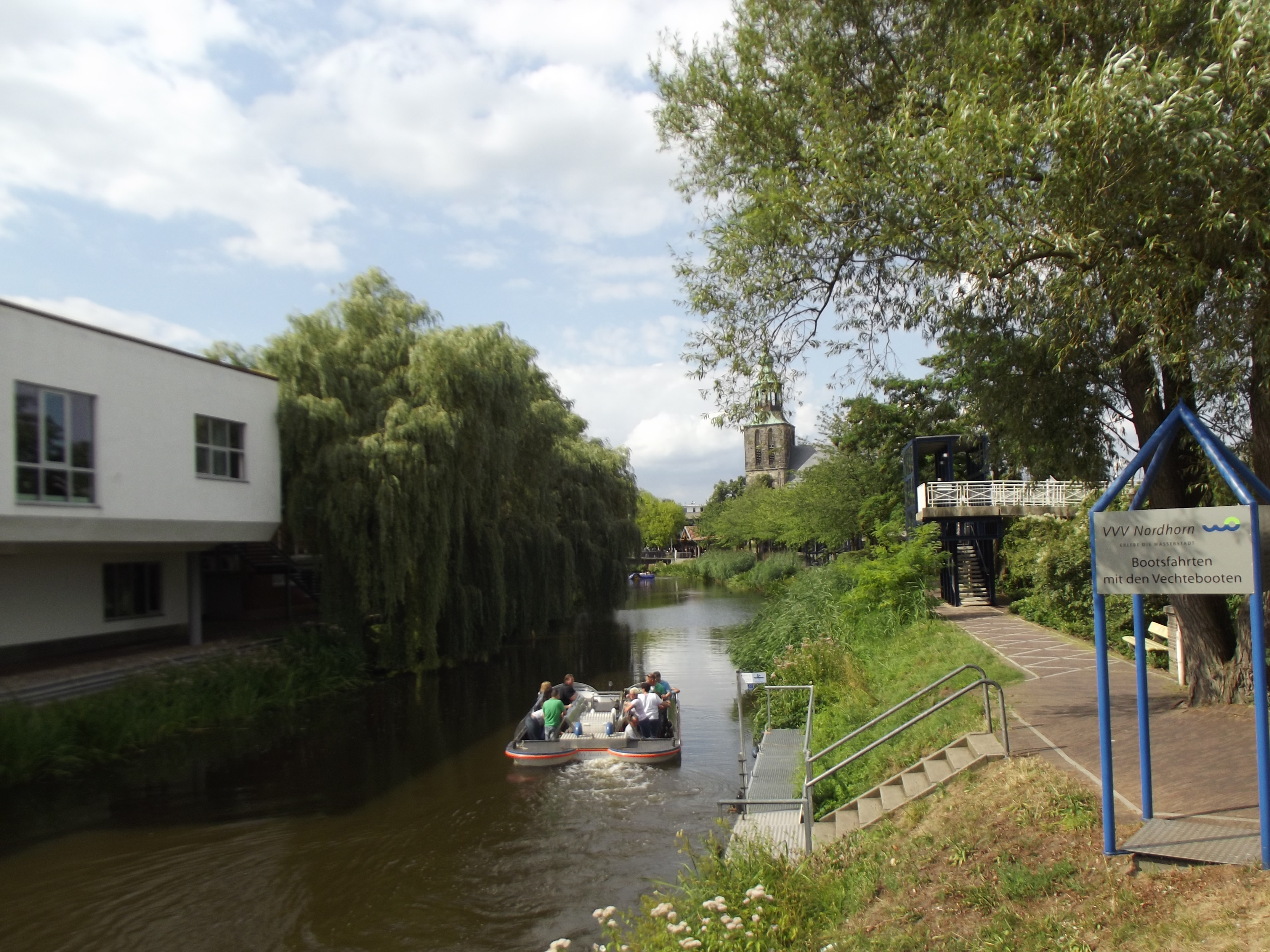 The pic shows how the Old Town of Nordhorn can be explored by boat